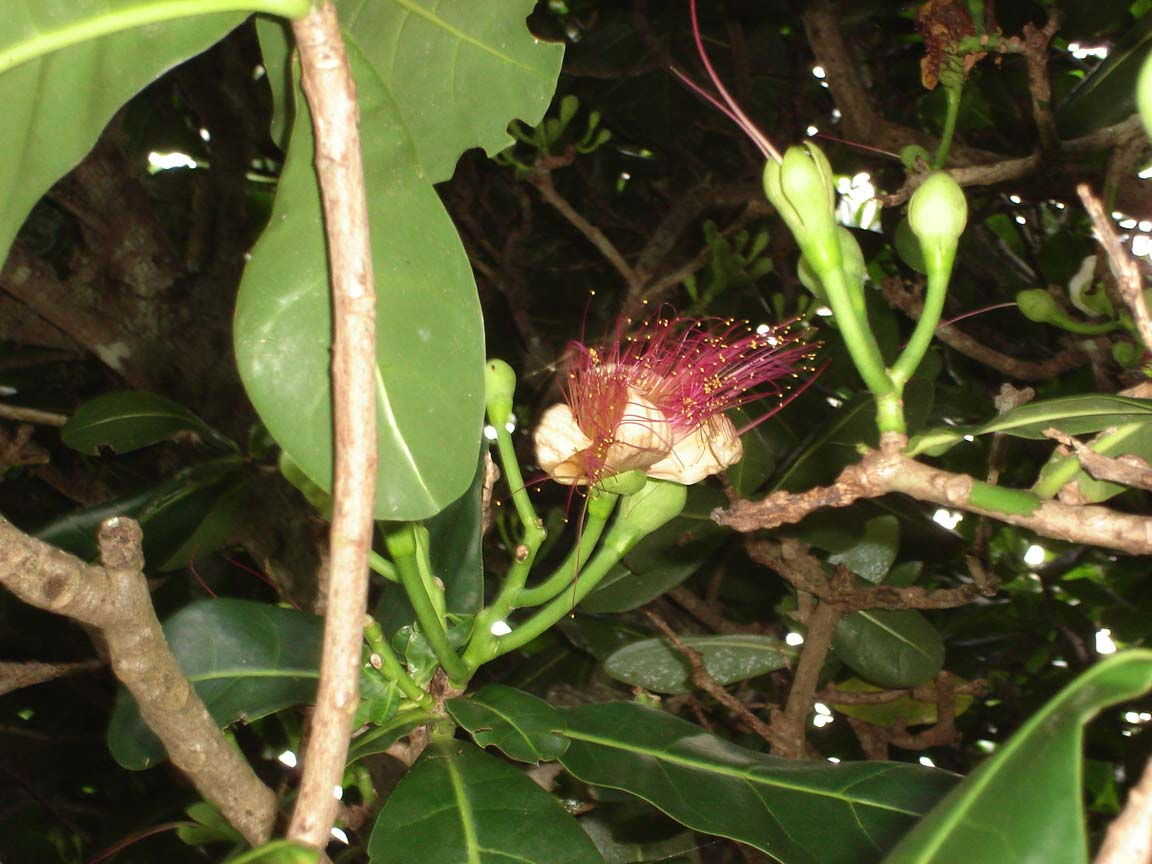 Flower of the Barringtonia asiatica (futu) on Tongatapu